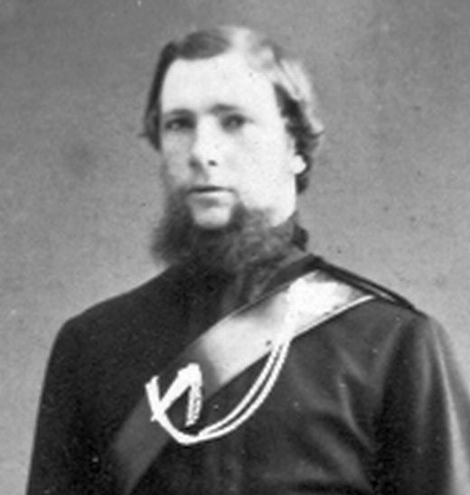 Captain Alexander Henderson, photographer, Montreal, Quebec, Canada in 1862